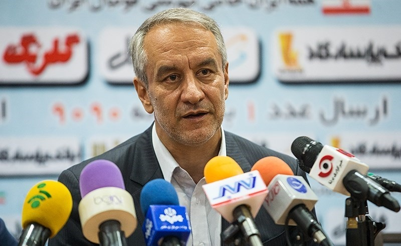 Contract extension ceremony of Carlos Queiroz